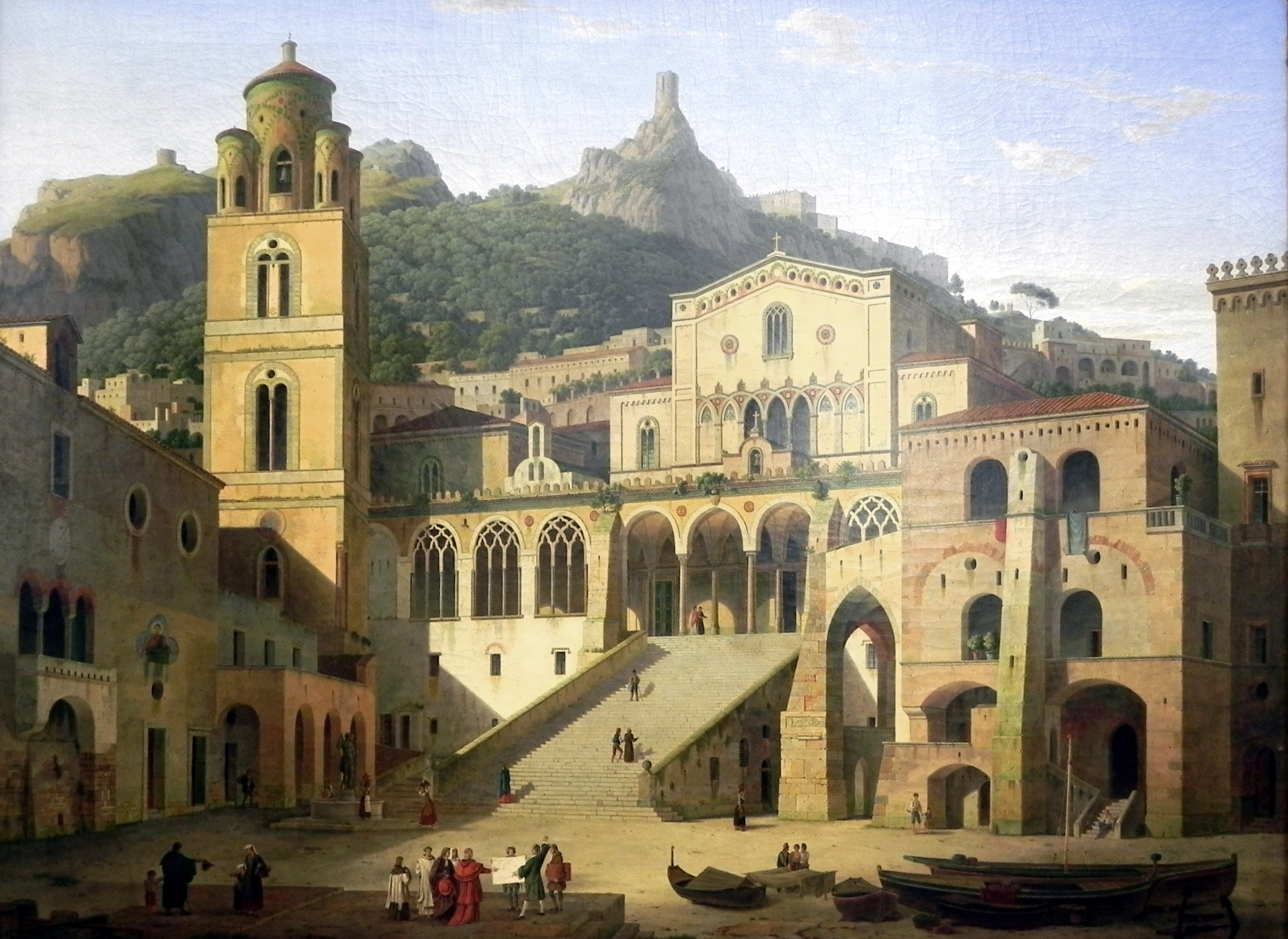 Place before the Cathedral of Amalfi, Italylabel QS:Len,"Place before the Cathedral of Amalfi, Italy"label QS:Lde,"Der Domplatz von Amalfi"